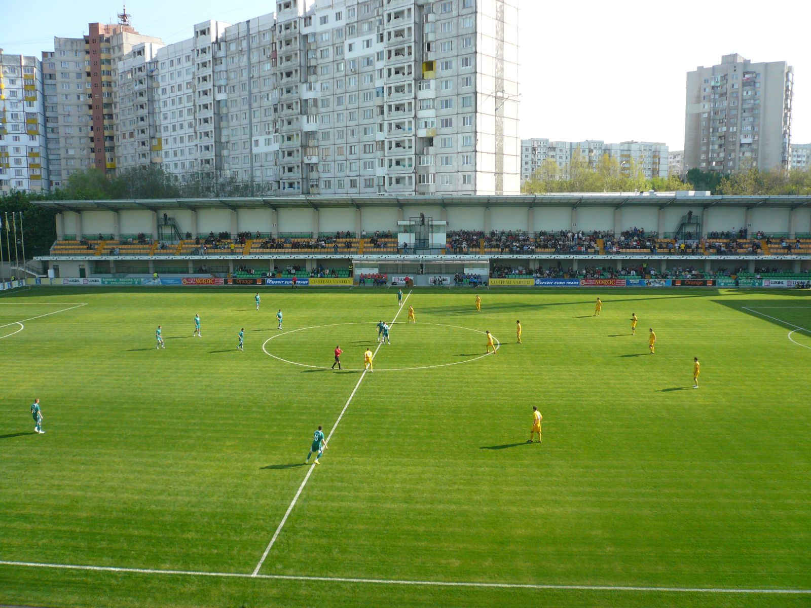 Spring 2010. Moldovan National Division. Chisinau derby. Dacia-Zimbru.1